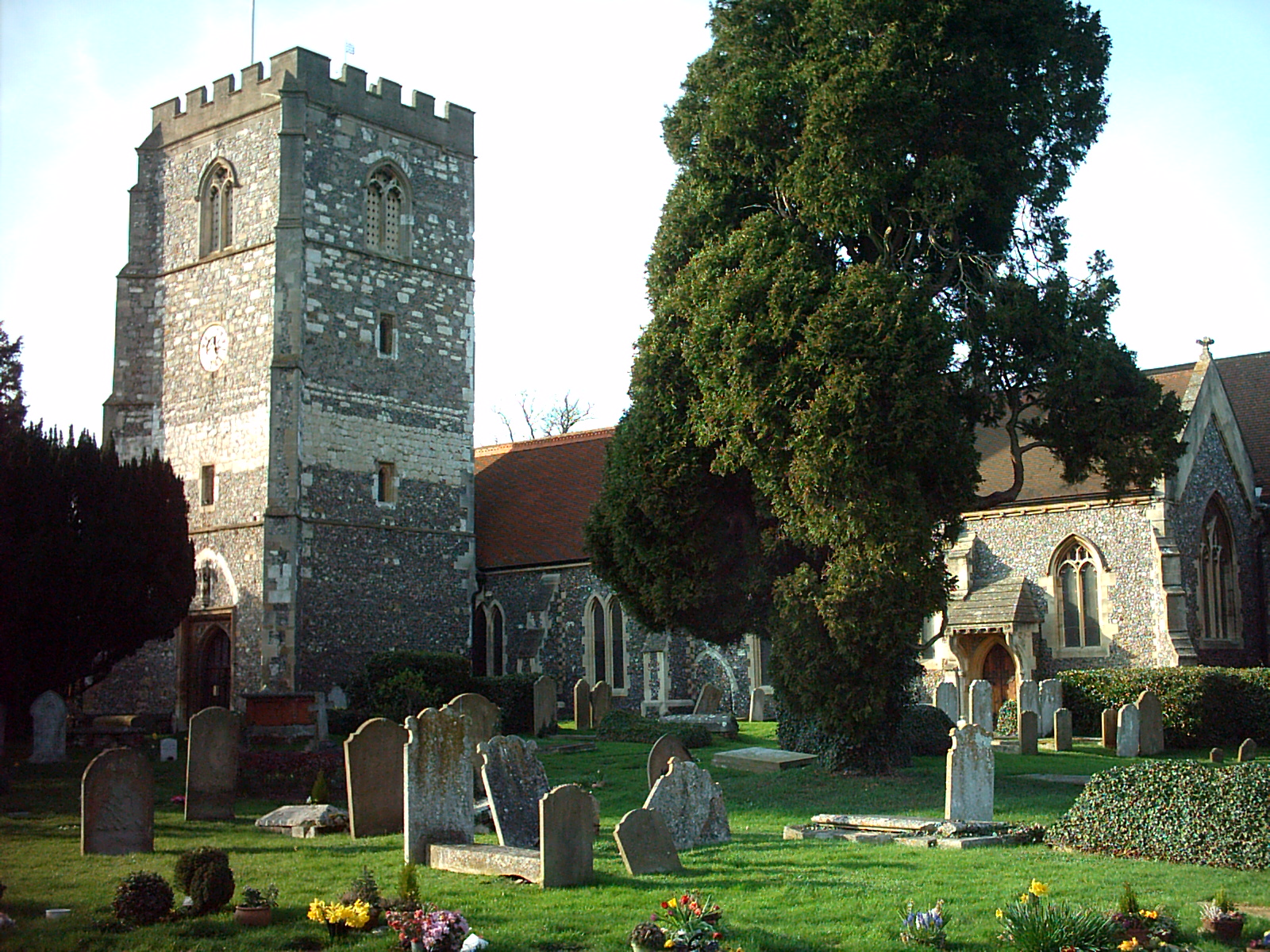 St Michael's parish church, Bray, Berkshire, seen from the south